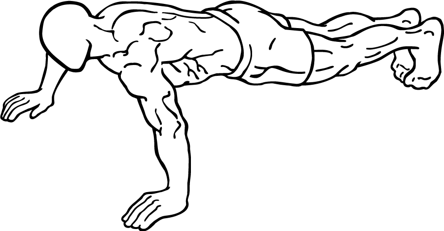 an exercise of chest